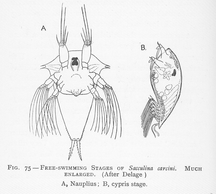 Free-swimming stages of Sacculina carcini A, Nauplius; B, Cypris stage Subject: Sacculini carcini--Development Tag: Invertebrates